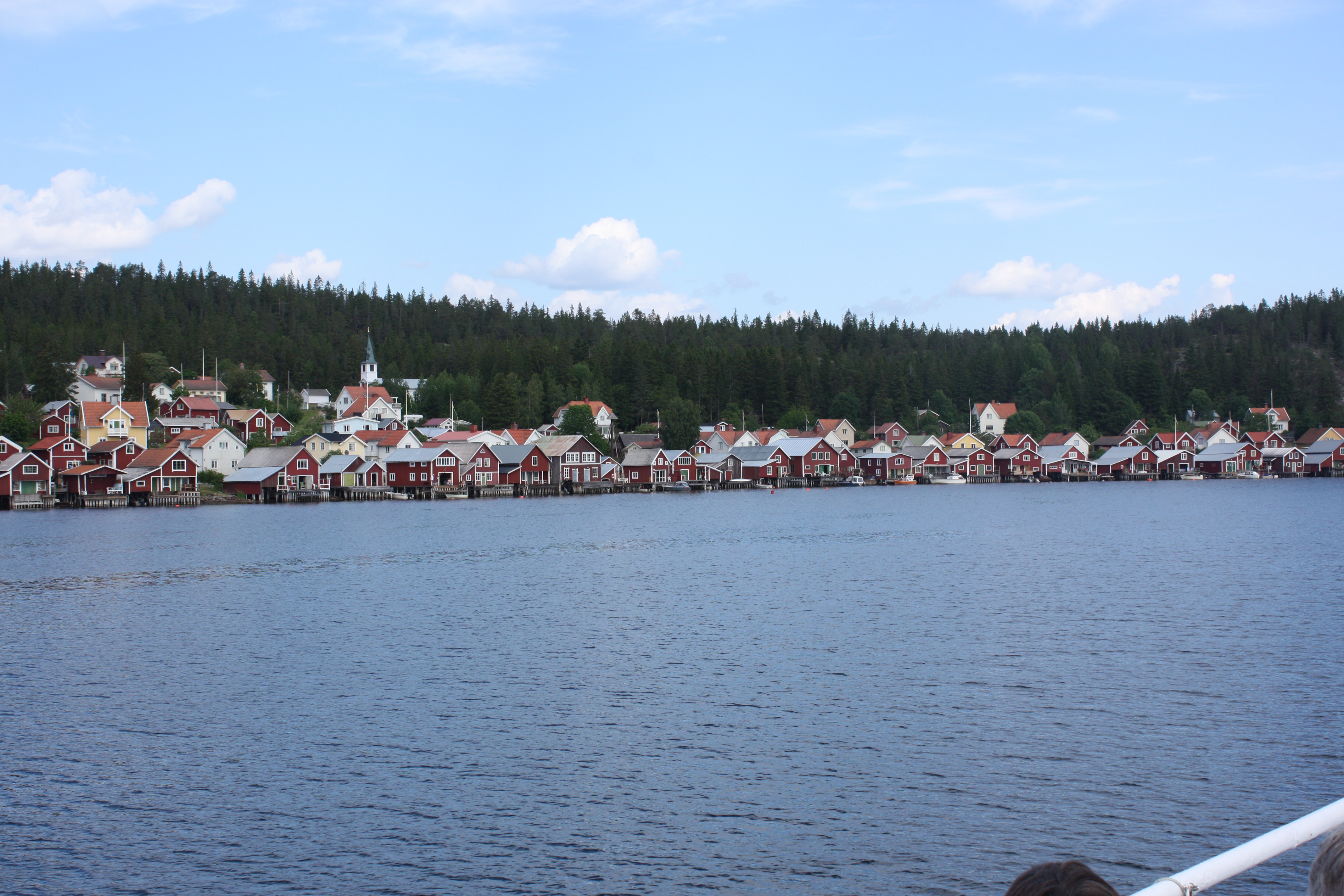 Ulvöhamn on the island of Norra Ulvön in Örnsköldsvik Municipality